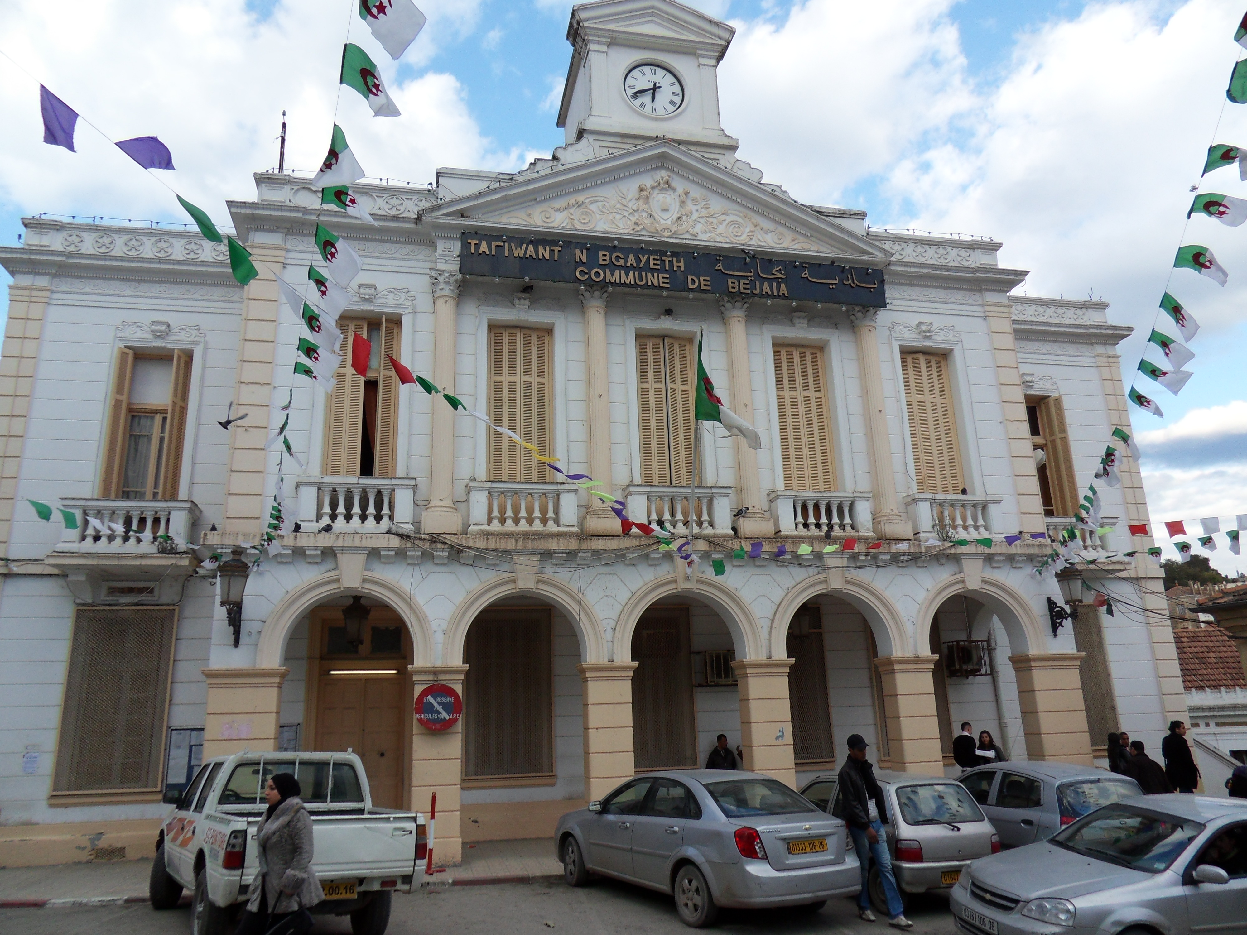 Mairie of Béjaïa, Algérie